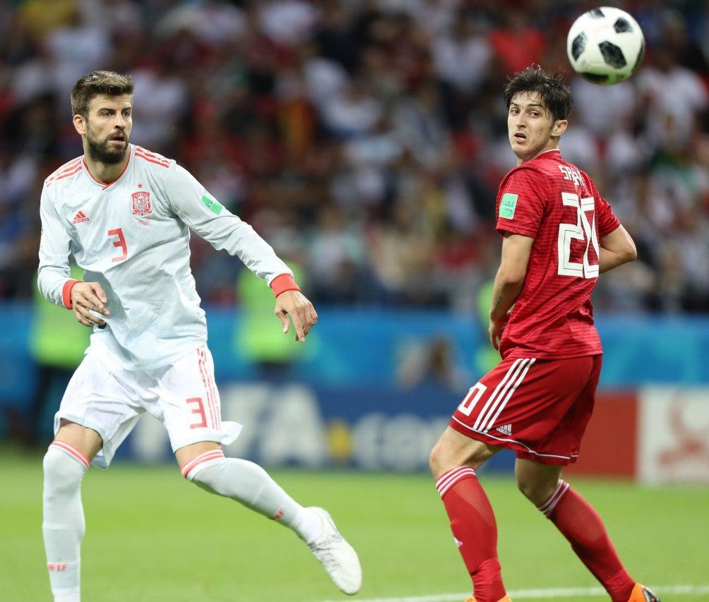 Iran and Spain match at the FIFA World Cup 2018